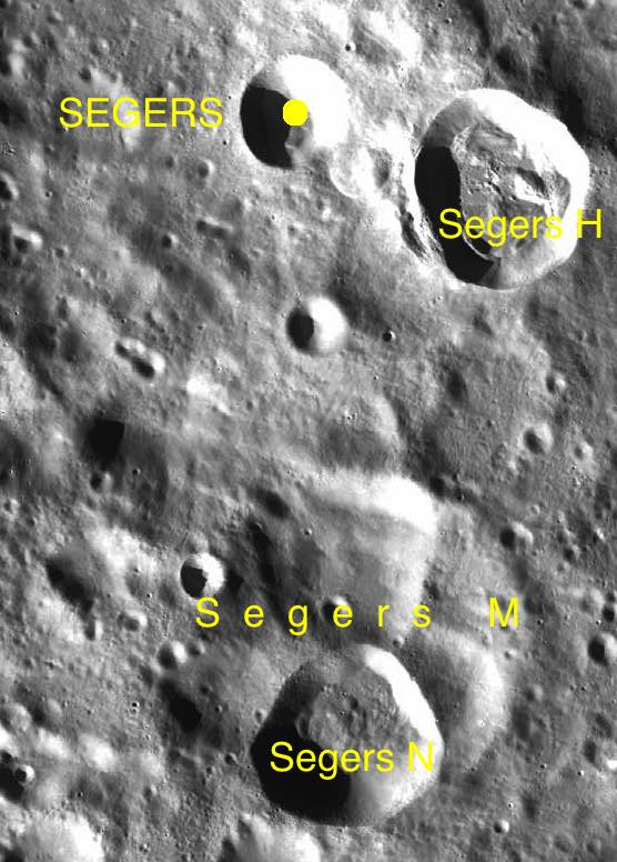 Part of the chart LAC-30 used for the presentation